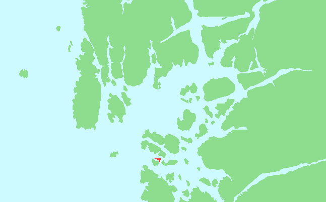 Locator map of Sokn, Rogaland, Norway